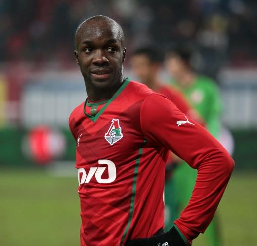 Lassana Diarra with FC Lokomotiv Moscow in 2013.